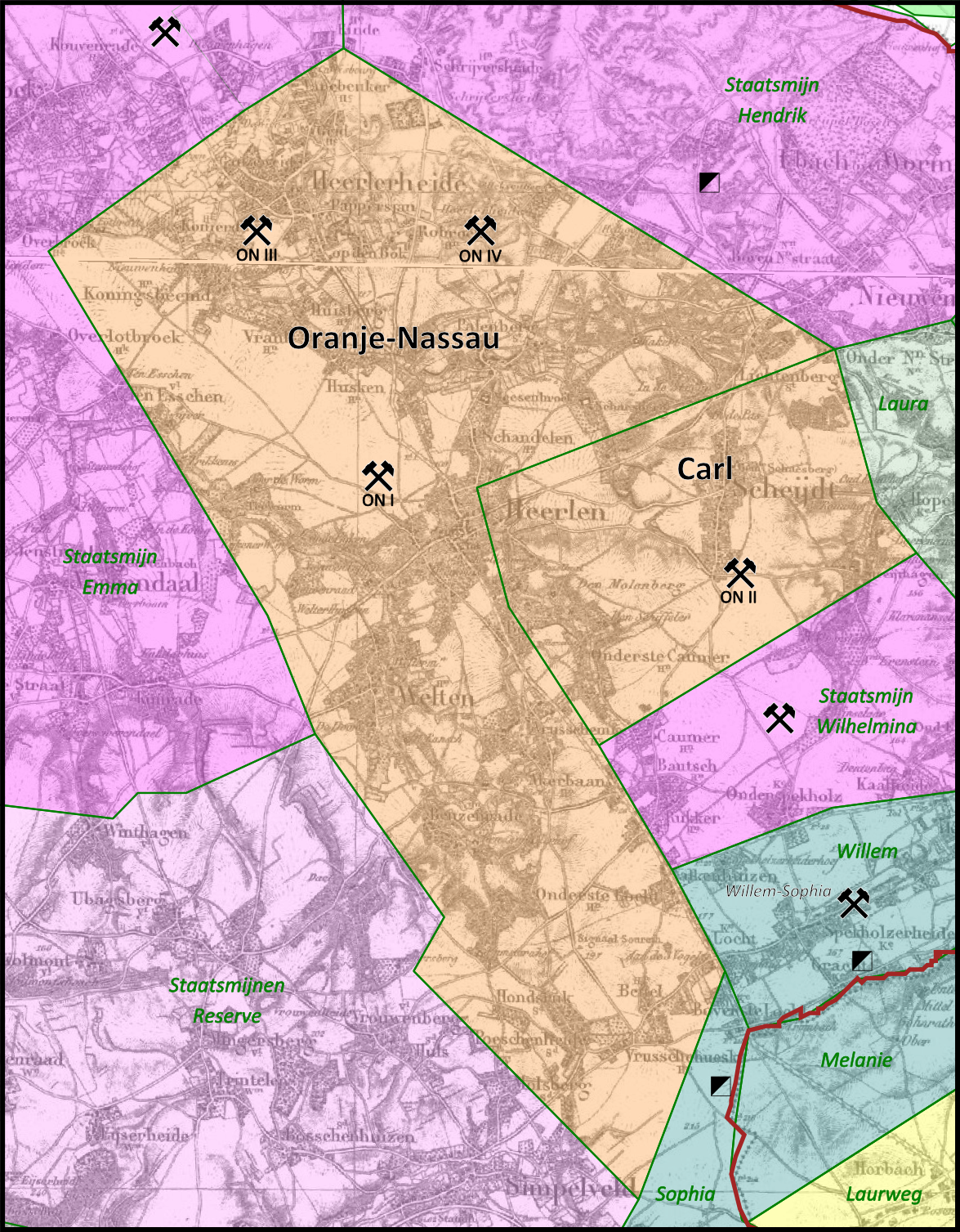 Map of mining permit areas of Oranje-Nassau coal mines, Limburg, The Netherlands